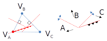 Triple junction theory